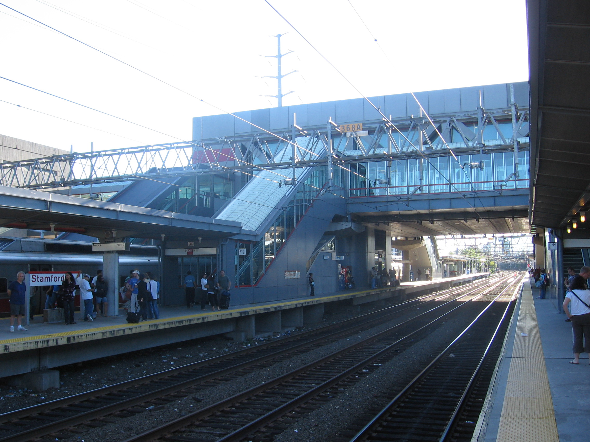 looking up at Stamford, CT's train station: Taken by me Sept 2007